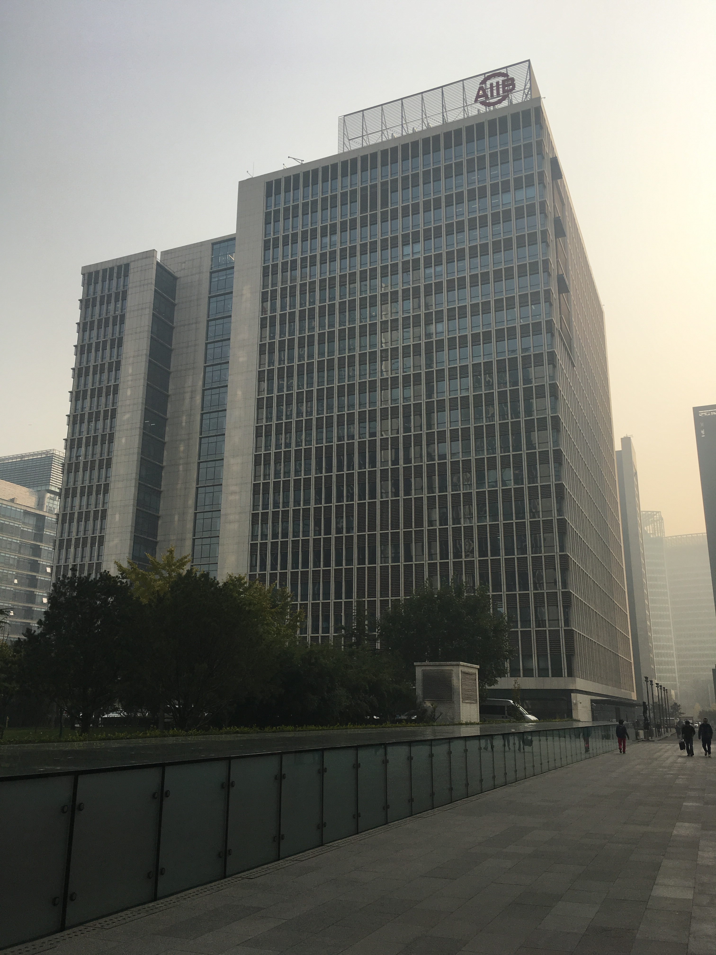 The Headquarter of the Asian Infrastructure Investment Bank in Beijing.